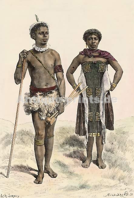 "Homme et Femme Cafres", South Africa. Original wood engraving, drawn by A. Sirouy, engraved by Hildibrand. Hand-coloured. 19x13cm.